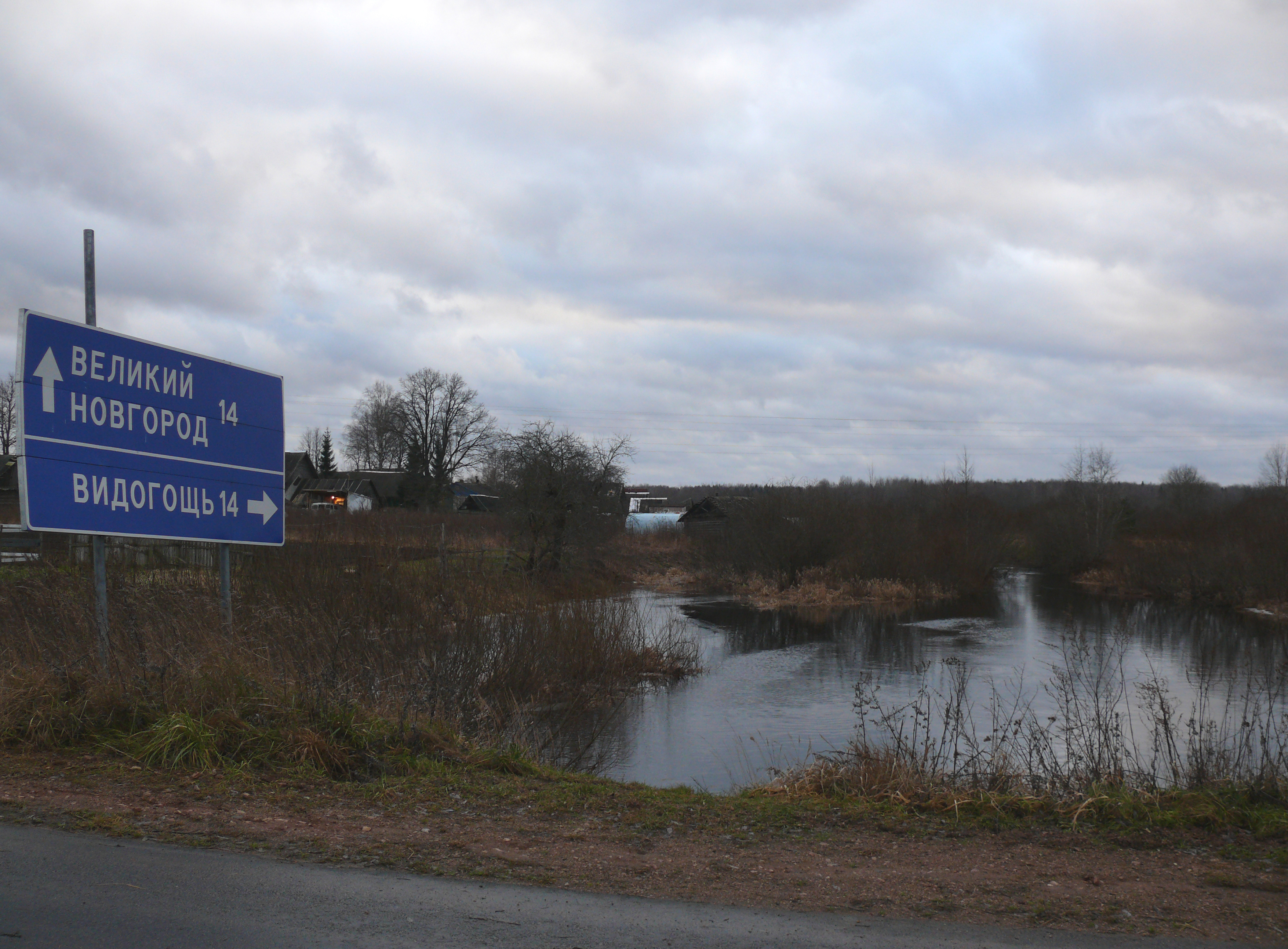 Zmeika river in Vashkovo village. Novgorodsky district, Novgorod oblast, Russia